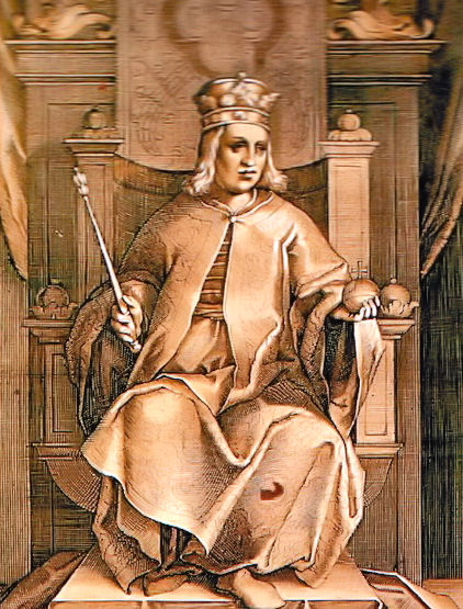 Wenceslaus III of Poland and Bohemia